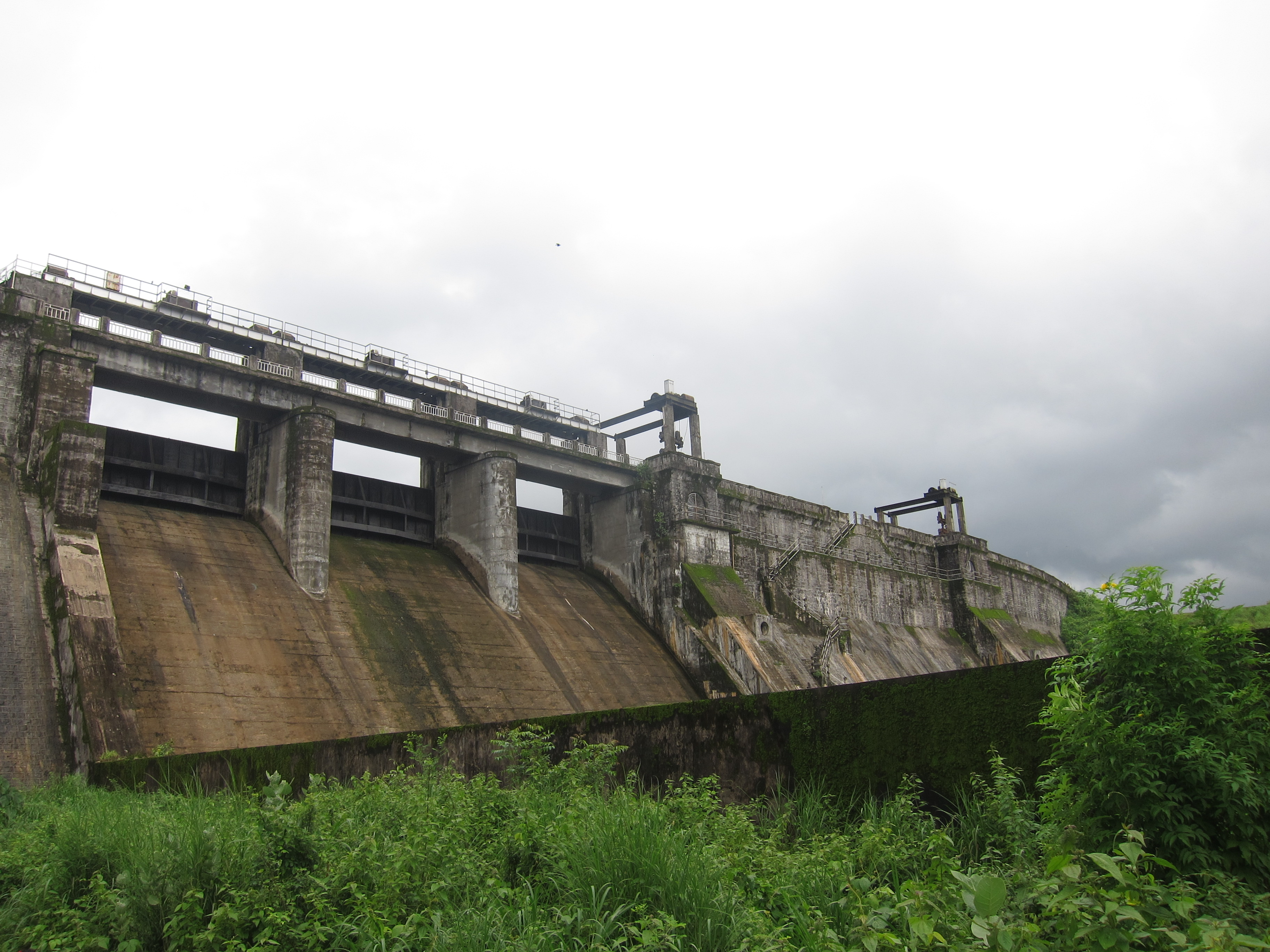 പാലക്കാട് ജില്ലയിൽ കാഞ്ഞിരപ്പുഴയ്ക്ക് കുറുകെ നിർമ്മിച്ചിരിക്കുന്ന കാഞ്ഞിരപ്പുഴ അണക്കെട്ട്... അതിനോട് ചേർന്നുള്ള കാഞ്ഞിരപ്പുഴ ഉദ്യാനം... അവിടെ നിന്ന് കാണുന്ന വാക്കോടൻ മല...